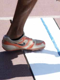 long jump